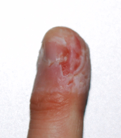 The finger of a person suffering from Dermatophagia